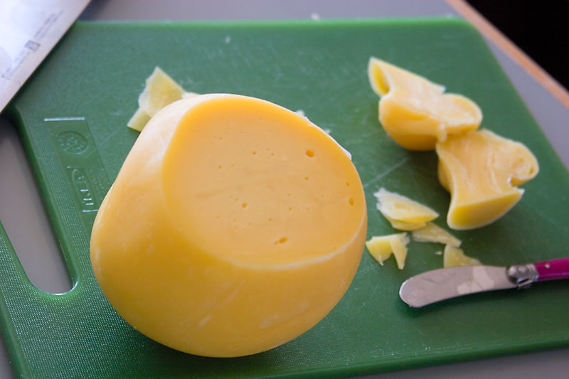 it had a very smooth, creamy texture, even more than a provolone, as well as a nice creamy taste, with a subtle sharpness, not unlike a parmesan or asiago. It was hard to describe. It was also hard to peel with that cheese knife . . .